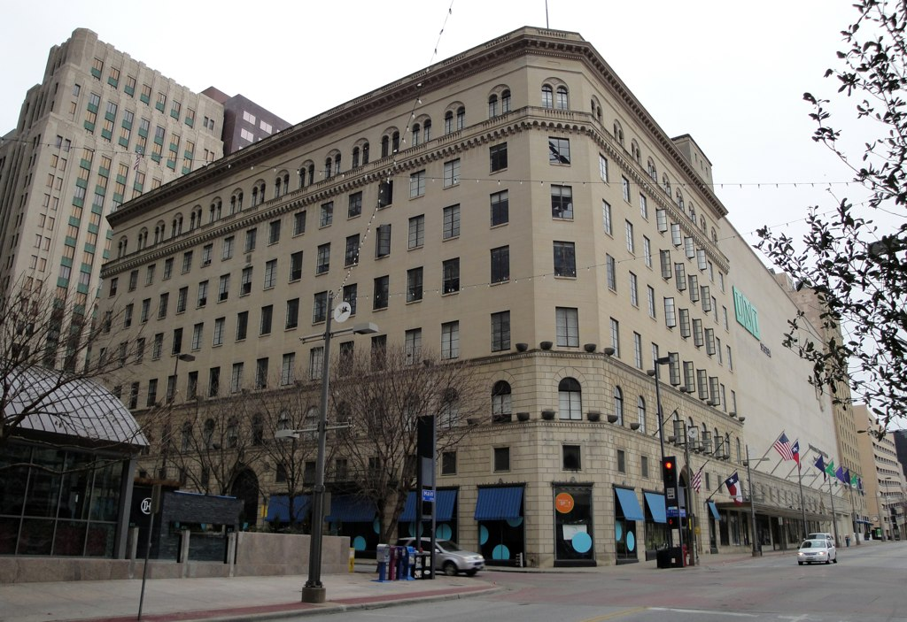 Exterior photo of historic Titche-Goettinger Building in downtown Dallas, Texas